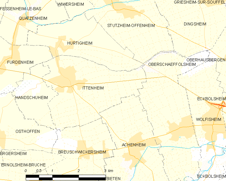 Map of French municipality